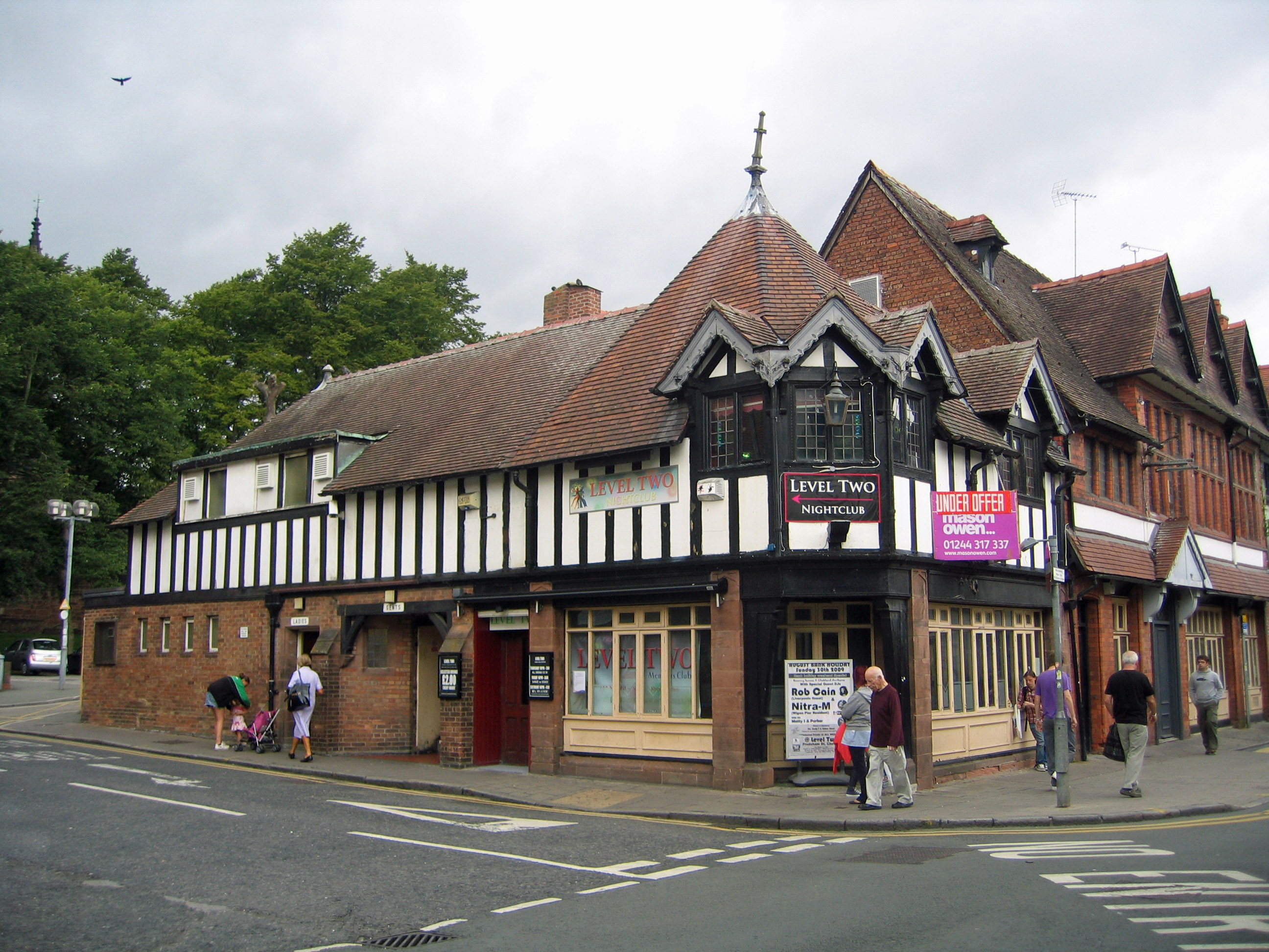 Photograph of the public conveniences and associated building in Frodsham Street, Chester, Cheshire, England